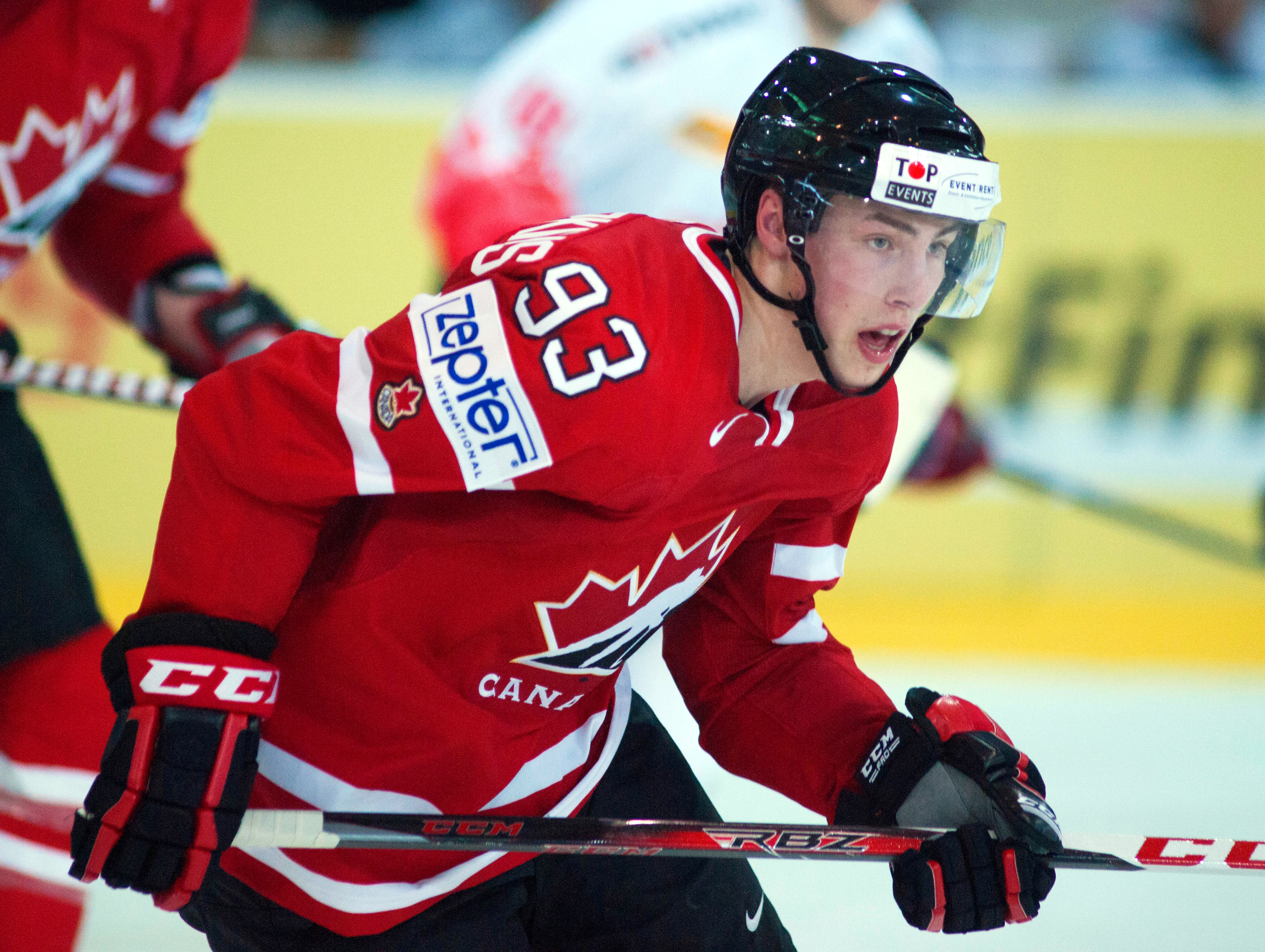 Switzerland vs. Canada, 29th April 2012